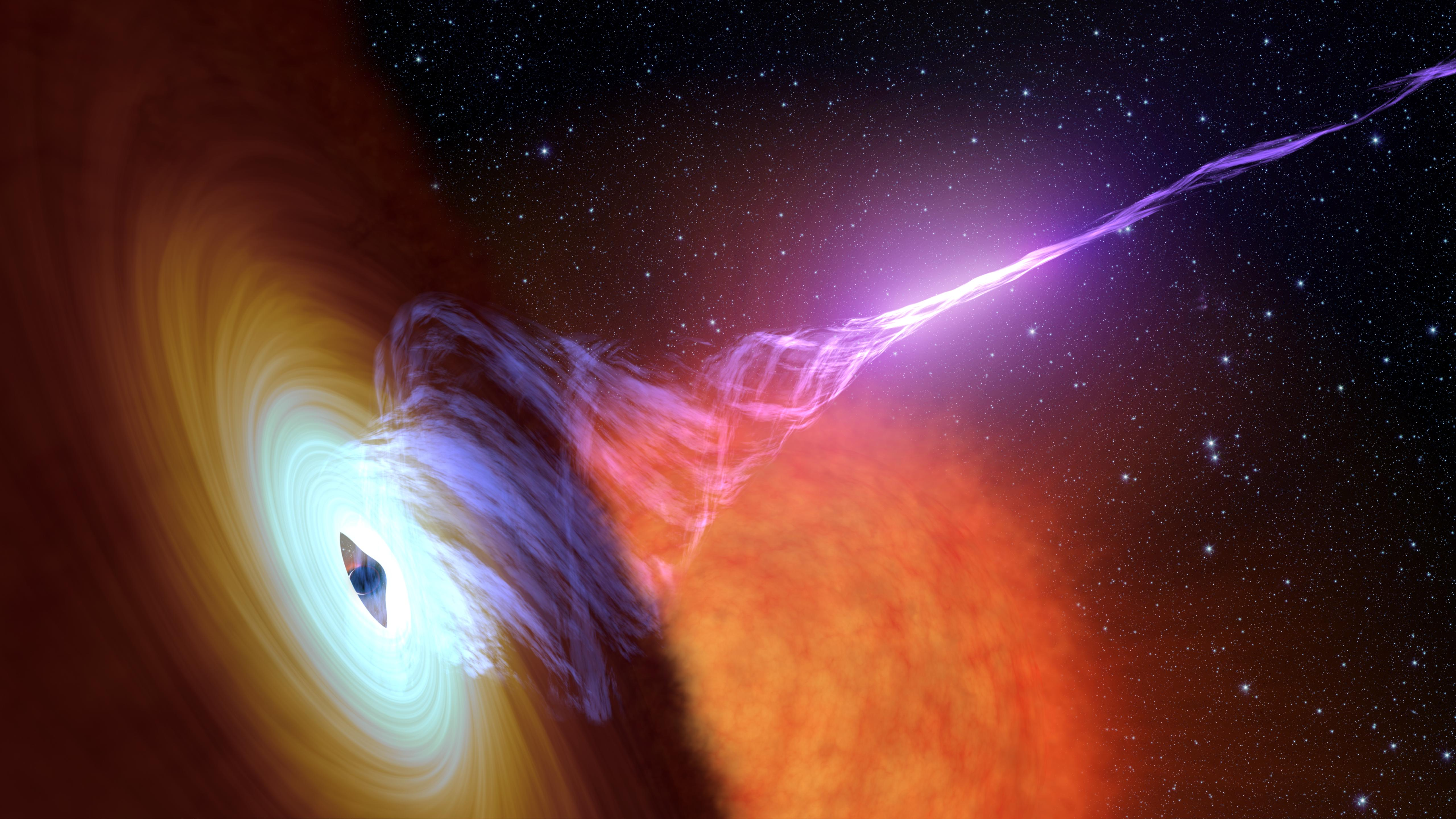 This artist's concept shows a black hole with an accretion disk -- a flat structure of material orbiting the black hole -- and a jet of hot gas, called plasma. Using NASA's NuSTAR space telescope and a fast camera called ULTRACAM on the William Herschel Observatory in La Palma, Spain, scientists have been able to measure the distance that particles in jets travel before they "turn on" and become bright sources of light. This distance is called the "acceleration zone."